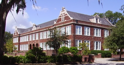 Glynn Academy Building, Brunswick, GA built 1923